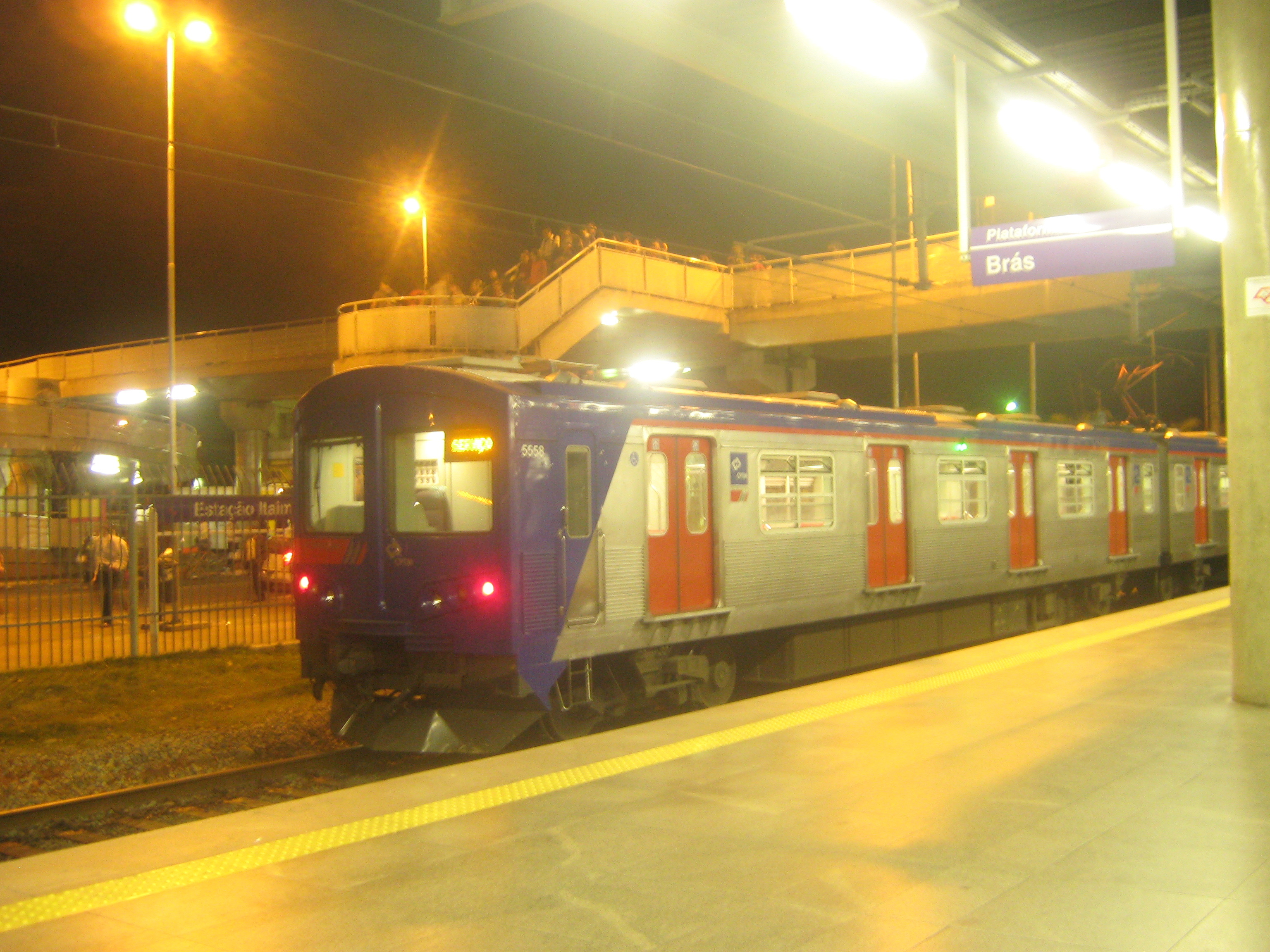 The 5500 Series Manufactured by ACEC(1978) an refurbished by Bombardier Trasportation(2007).